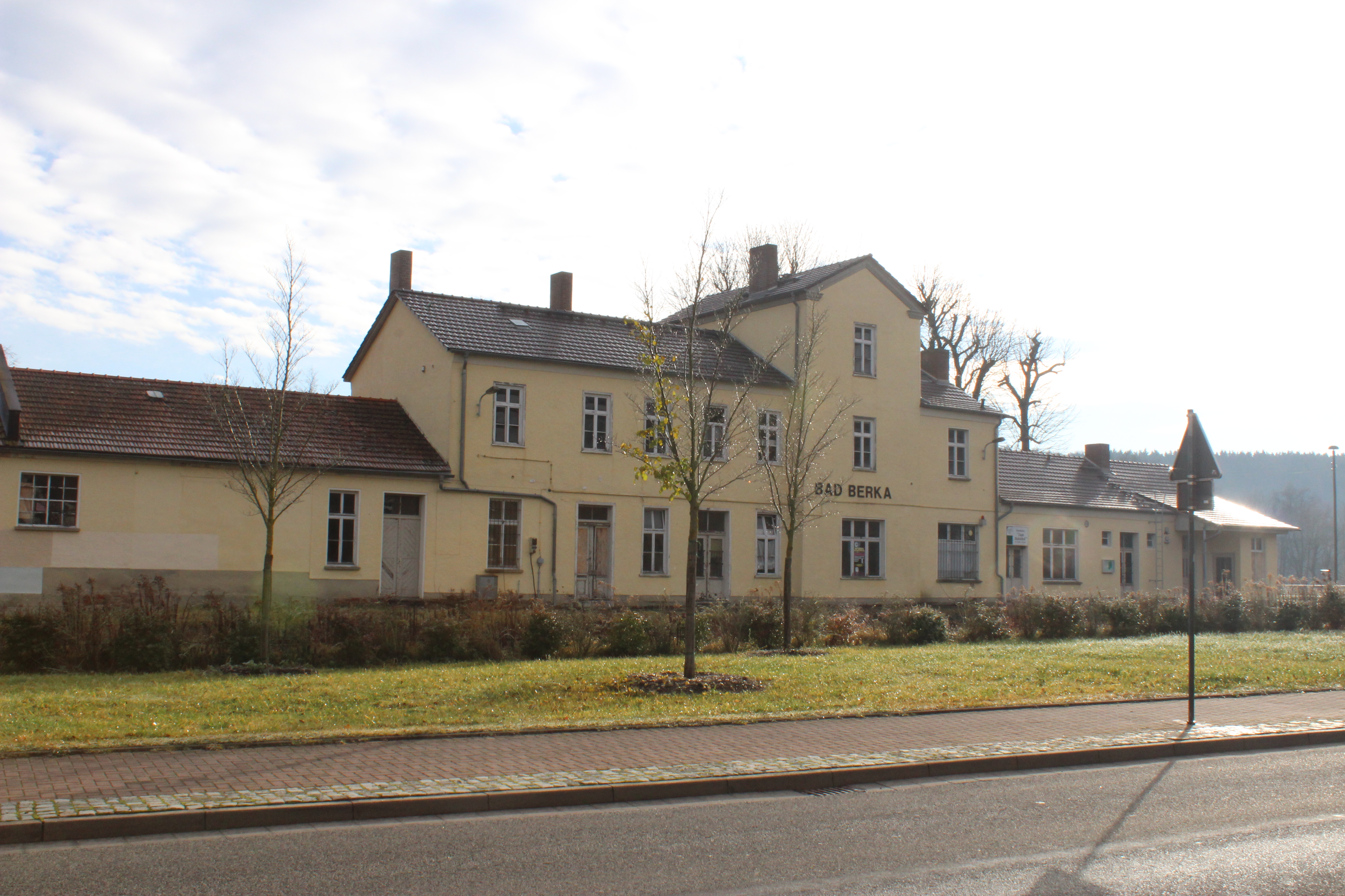 train station Bad Berka, station building rail side